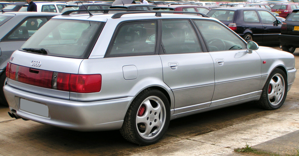 Summary Audi RS2 Avant. Picture taken by me at GTI International 2004, UK.